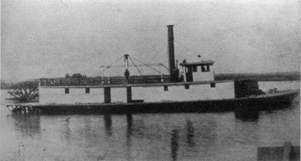 Steamboat Oneatta, built as sidewheeler 1872 at Yaquina Bay, converted to sternwheeler 1881. For dates, see Affleck, Edward L., A Century of Paddlewheelers in the Pacific Northwest, the Yukon, and Alaska, Alexander Nicolls Press, Vancouver BC 2000 ISBN 0-920034-08-X.